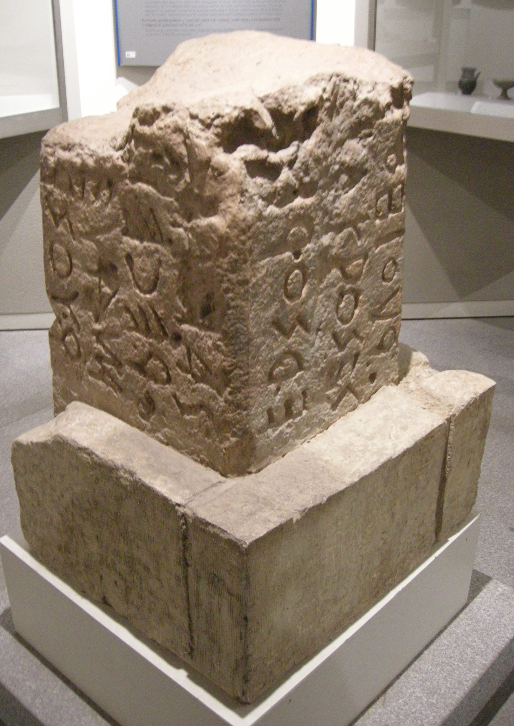 The Lapis Niger (i.e. Black Stone), an ancient inscription in Old Latin from a cultic site where the Roman Forum now stands, perhaps the earliest Latin inscription dating to the 7th or 6th century BC, during the Roman Kingdom.